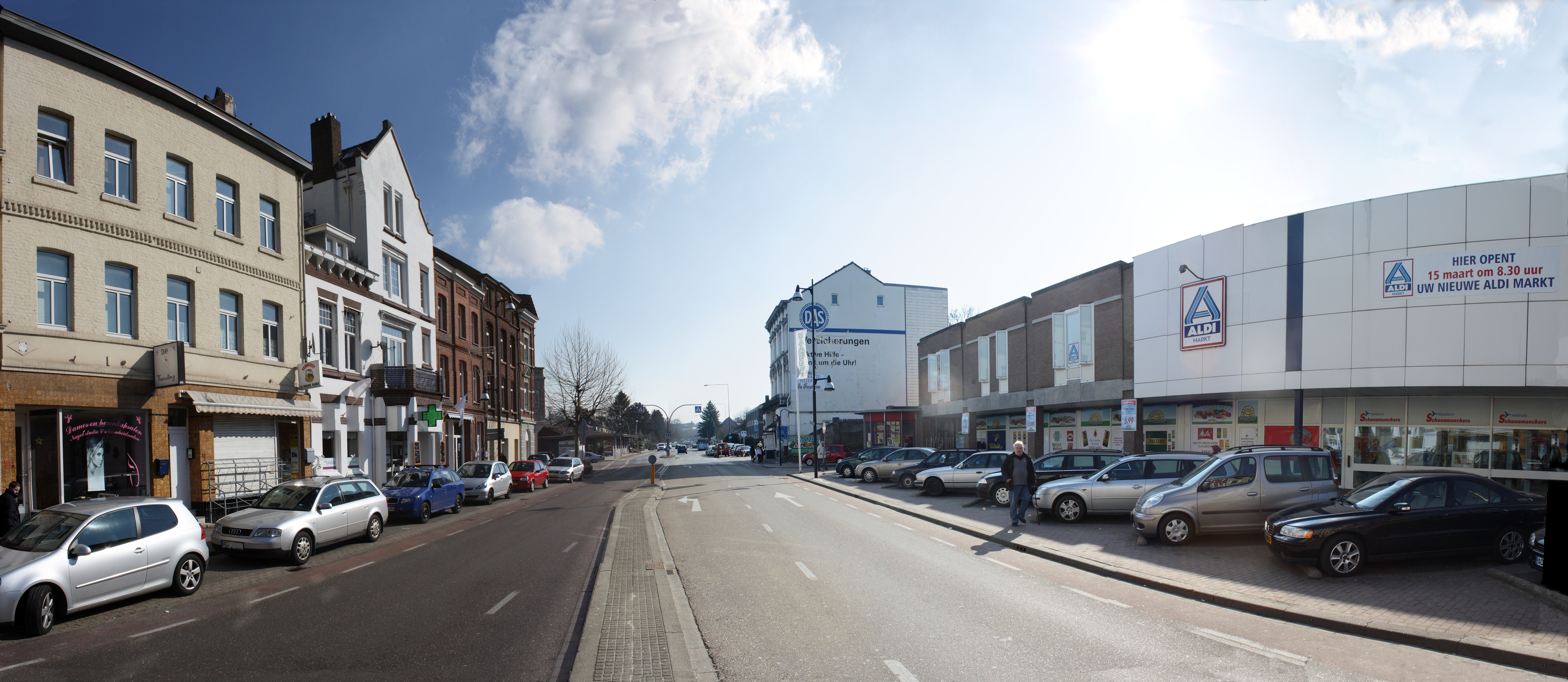 Border between Netherlands and Germany. Camera Location is in the Netherlands, looking into Germany. I am standing on Dutch Highway N278. Just in front of me German Highway B1 begins. Inside of the Schengen Zone there are no more border controls - Usually nobody checks your ID or passport here. Only Random traffic checks are made by the police to see your driver's license or if you are drunk. If they find you are importing drugs that are legal in the Netherlans, but illegal in Germany, you will get into trouble anyway.